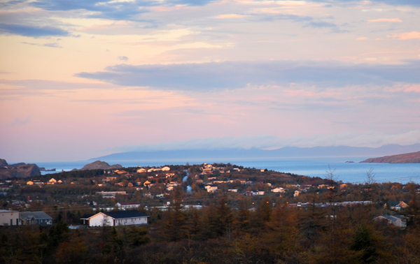 Bay Roberts viewed from the Visitor Information Centre